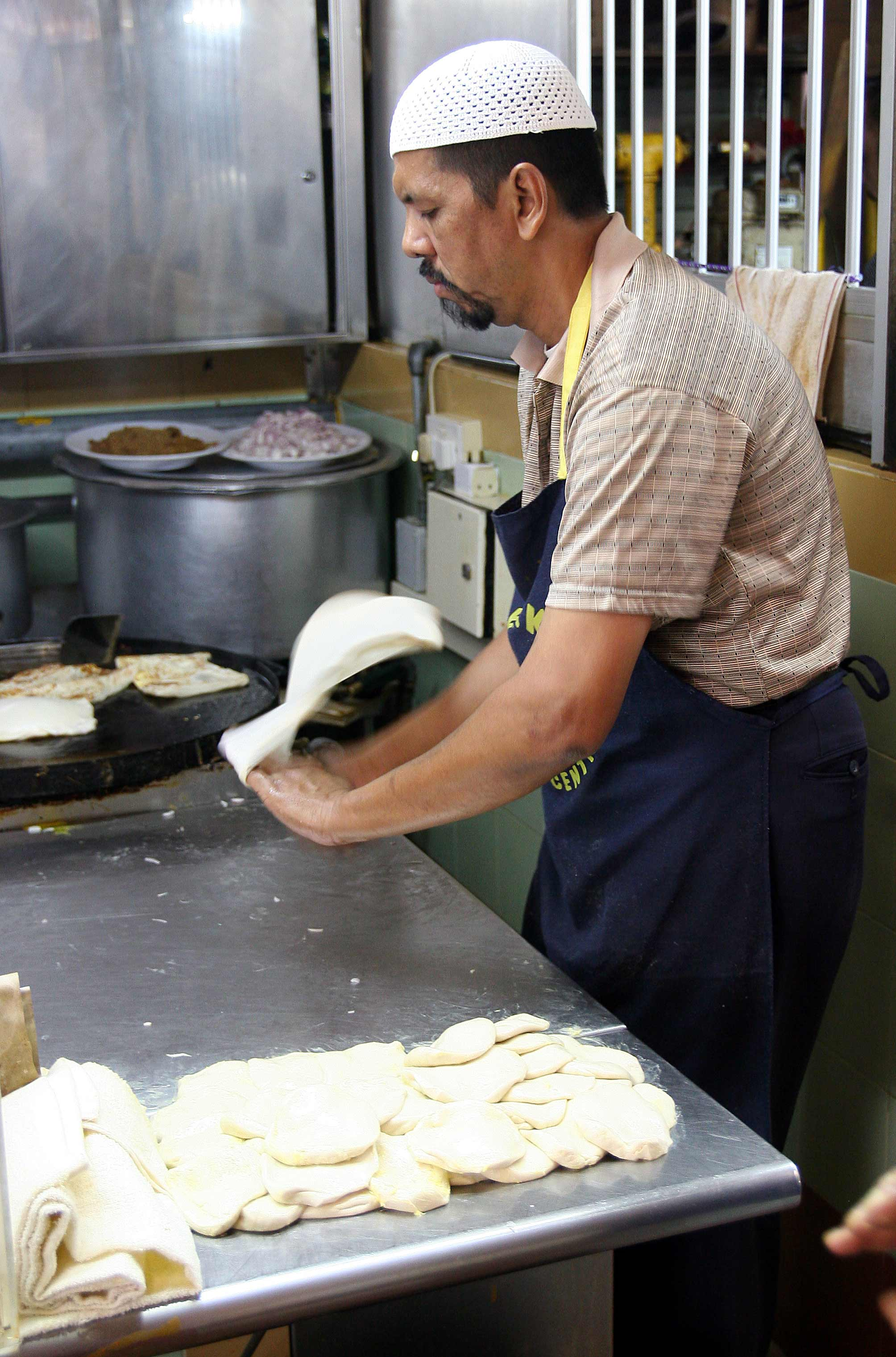 Roti prata baker. Camera Model Canon 20D; lens: Sigma 18-50 2.8